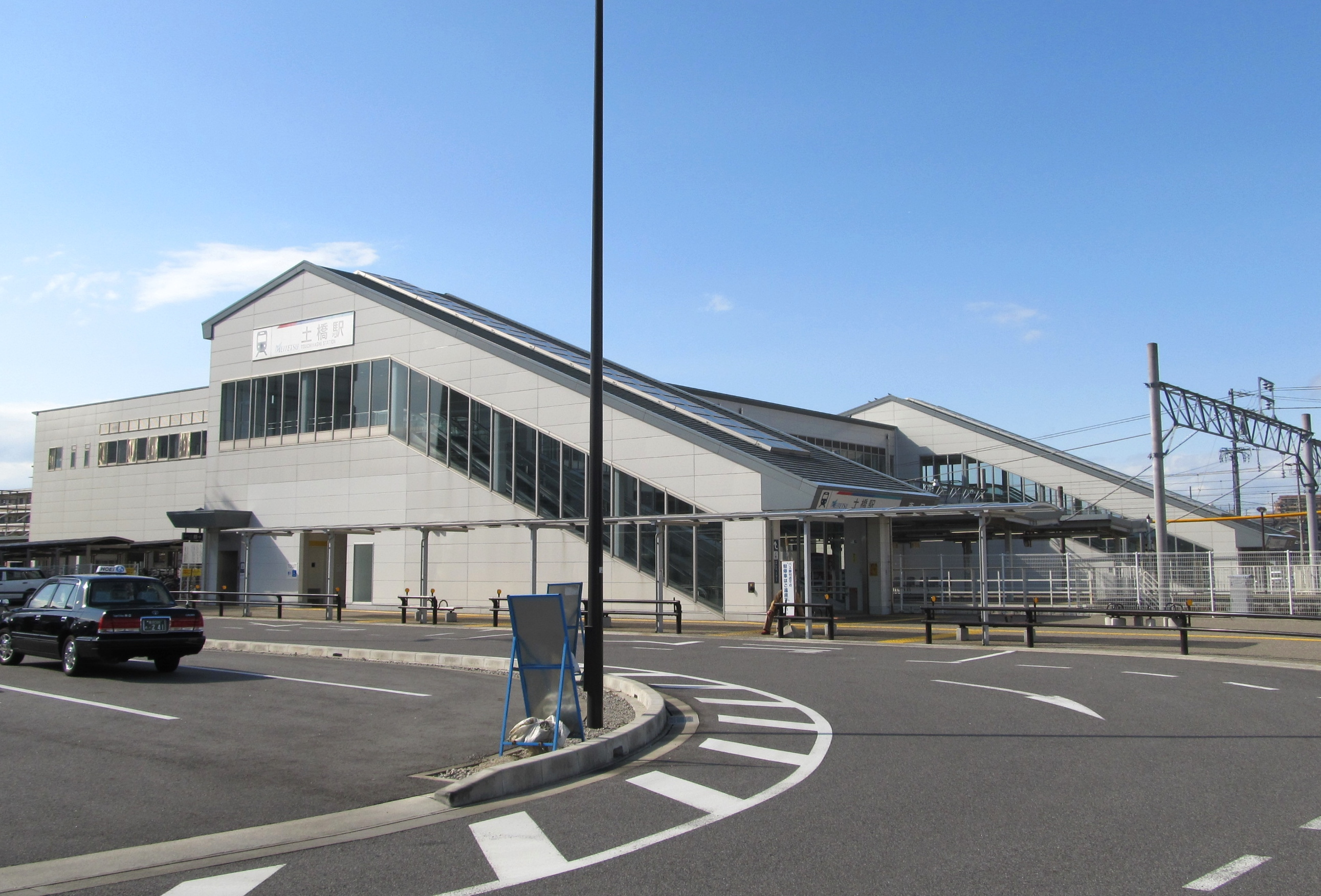 Nagoya Railroad Mikawa Line Tsuchihashi Station South gate